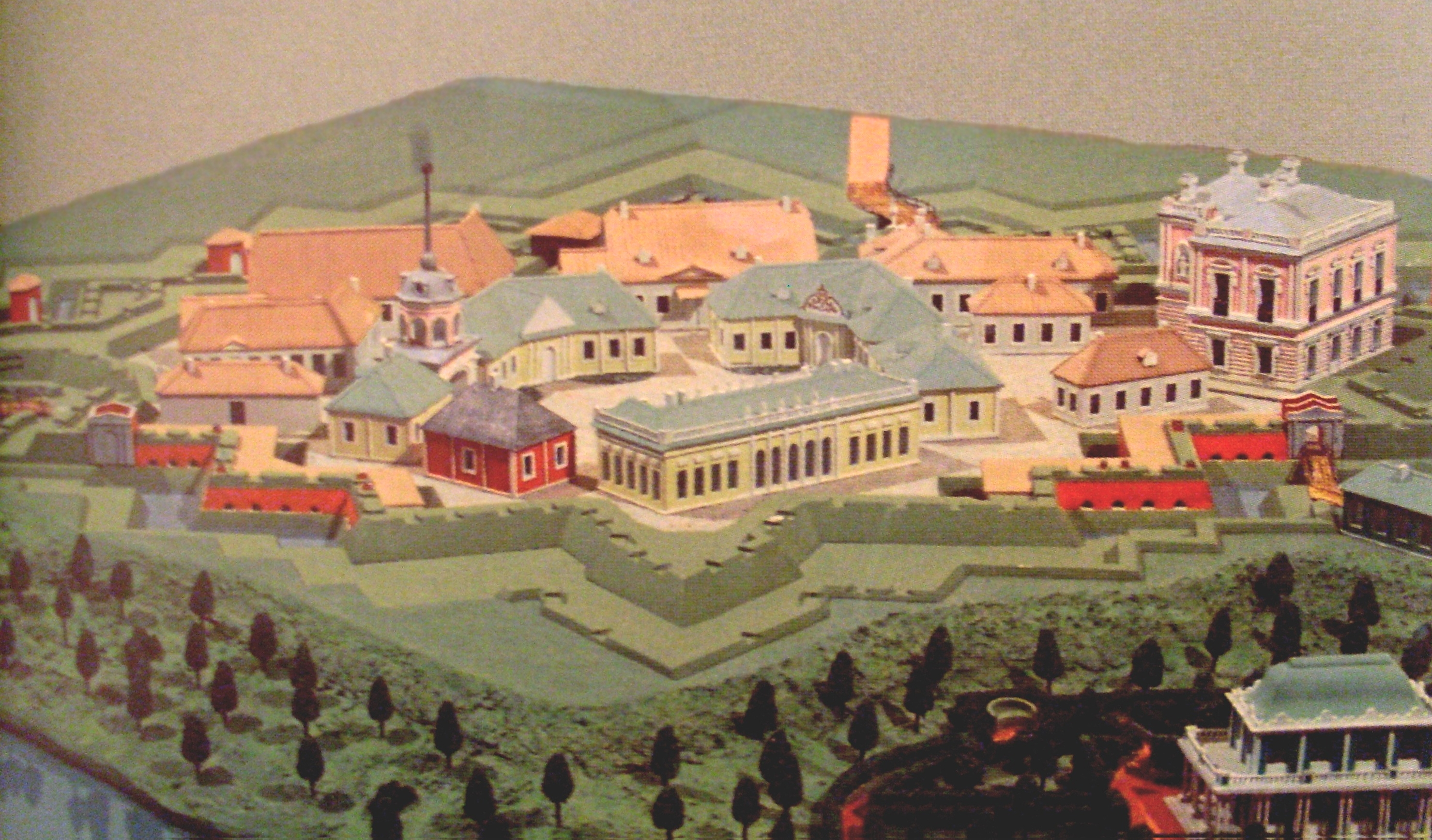 The model of the Petershtadt Fortress